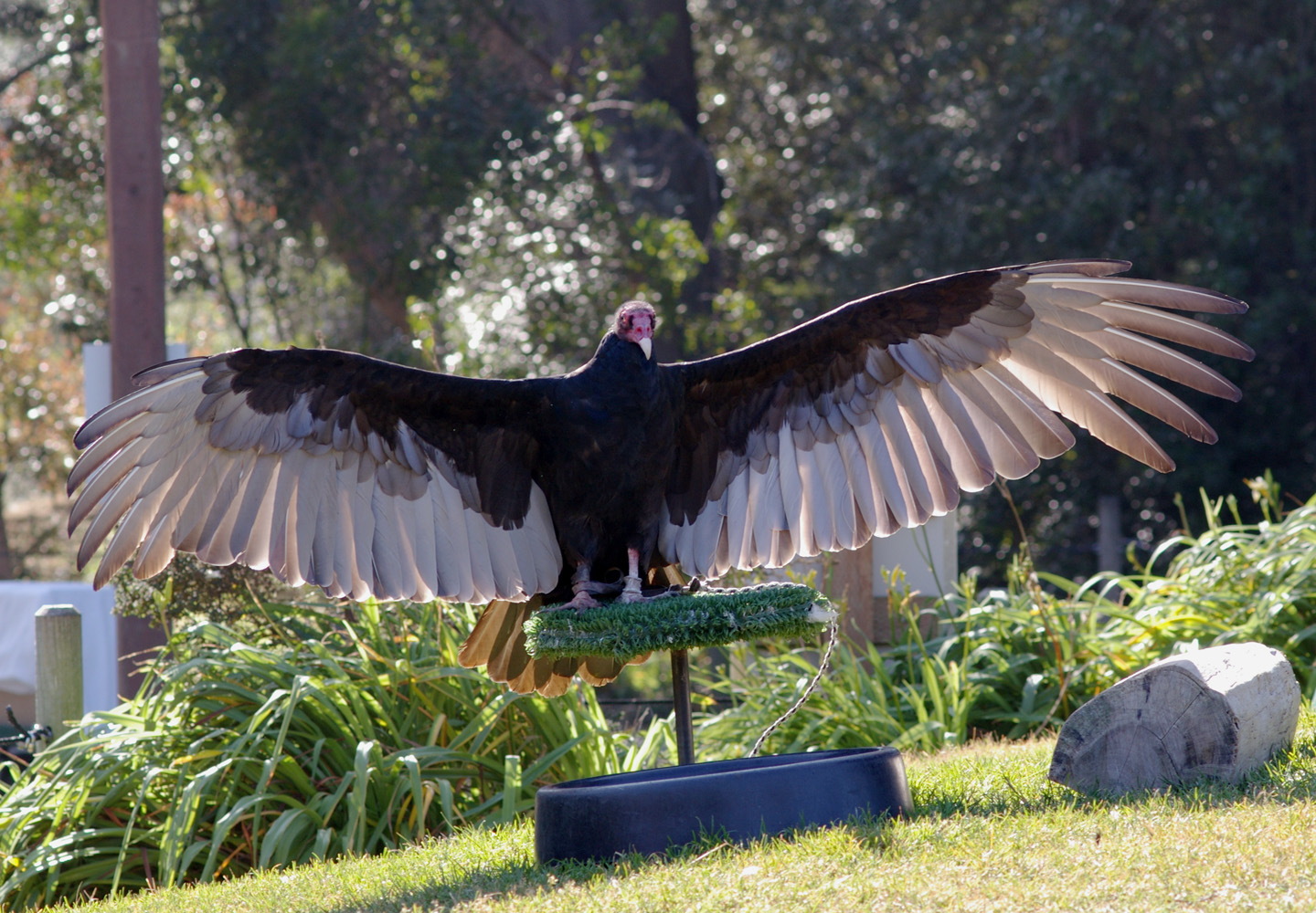 Turkey vulture in captivity at the San Francisco Zoo, California. Photo taken Jan. 24, 2007.